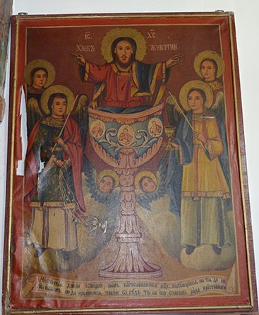 Donji Vrtogos Icon